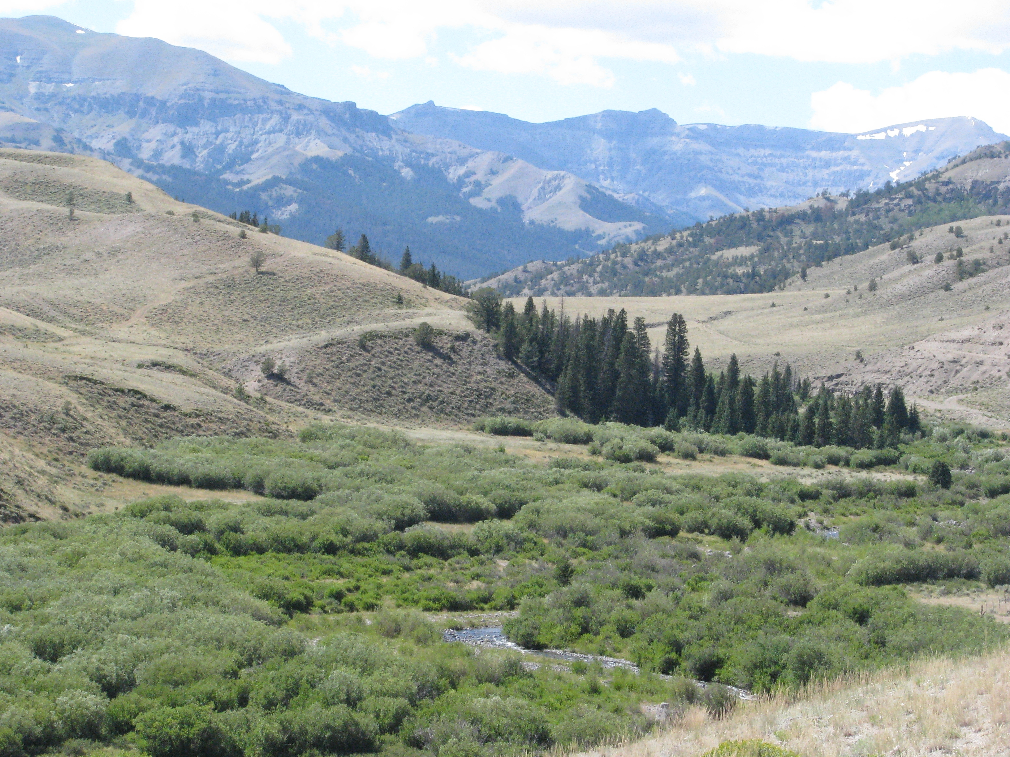 A stream on the South Fork of the Owl Creek meanders down from the Owl Creek Mountains in Hot Springs County in Wyoming, USA.